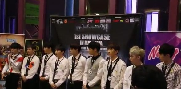 AlphaBAT's 1st Showcase In Malaysia PC - Hope & expectation on the new member